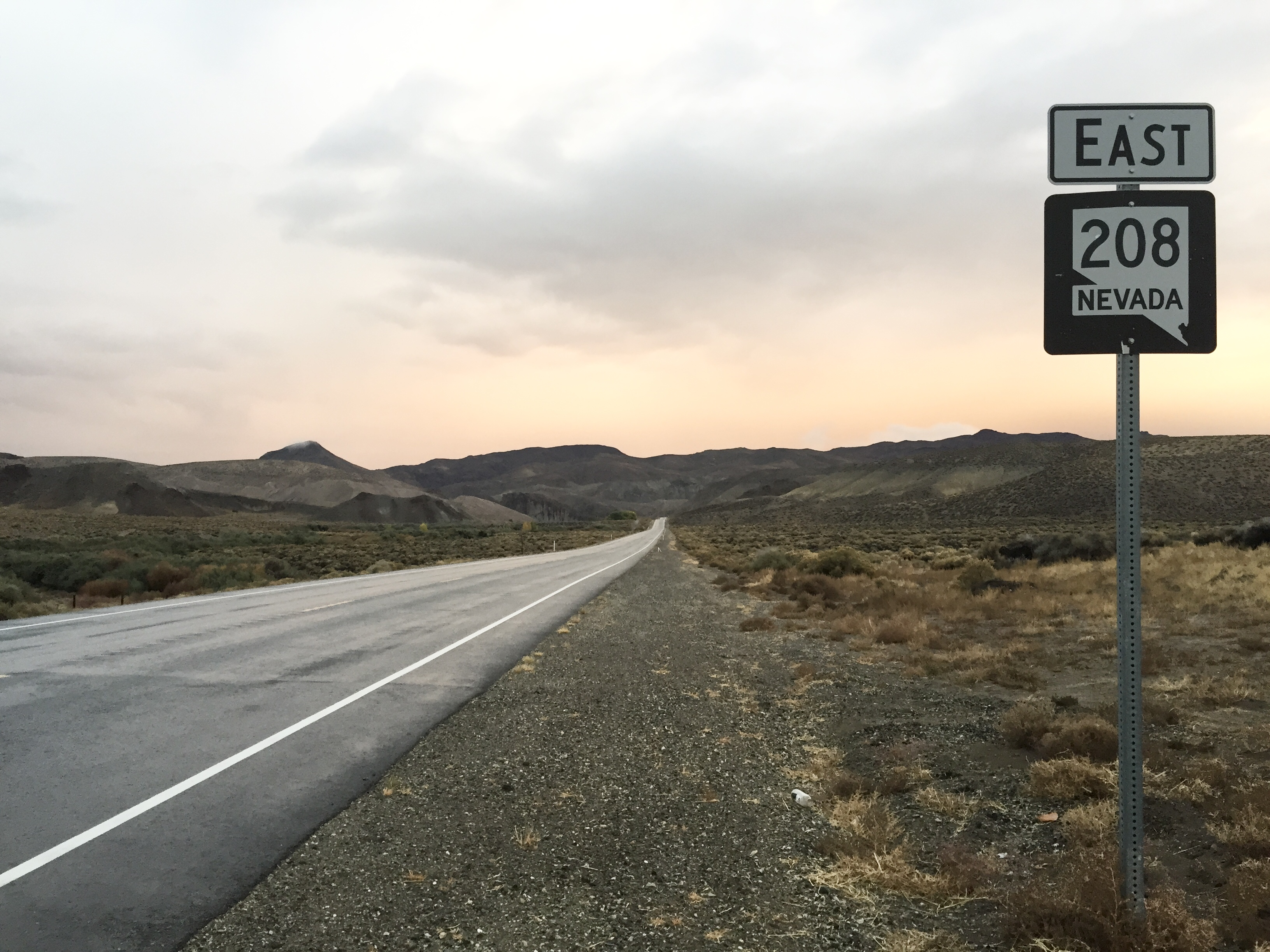 View east from near the mid-point of Nevada State Route 208 (Topaz-Yerington Road) in Lyon County, Nevada near sunset